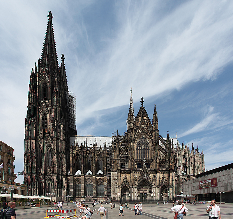 Cologne Cathedral, south side